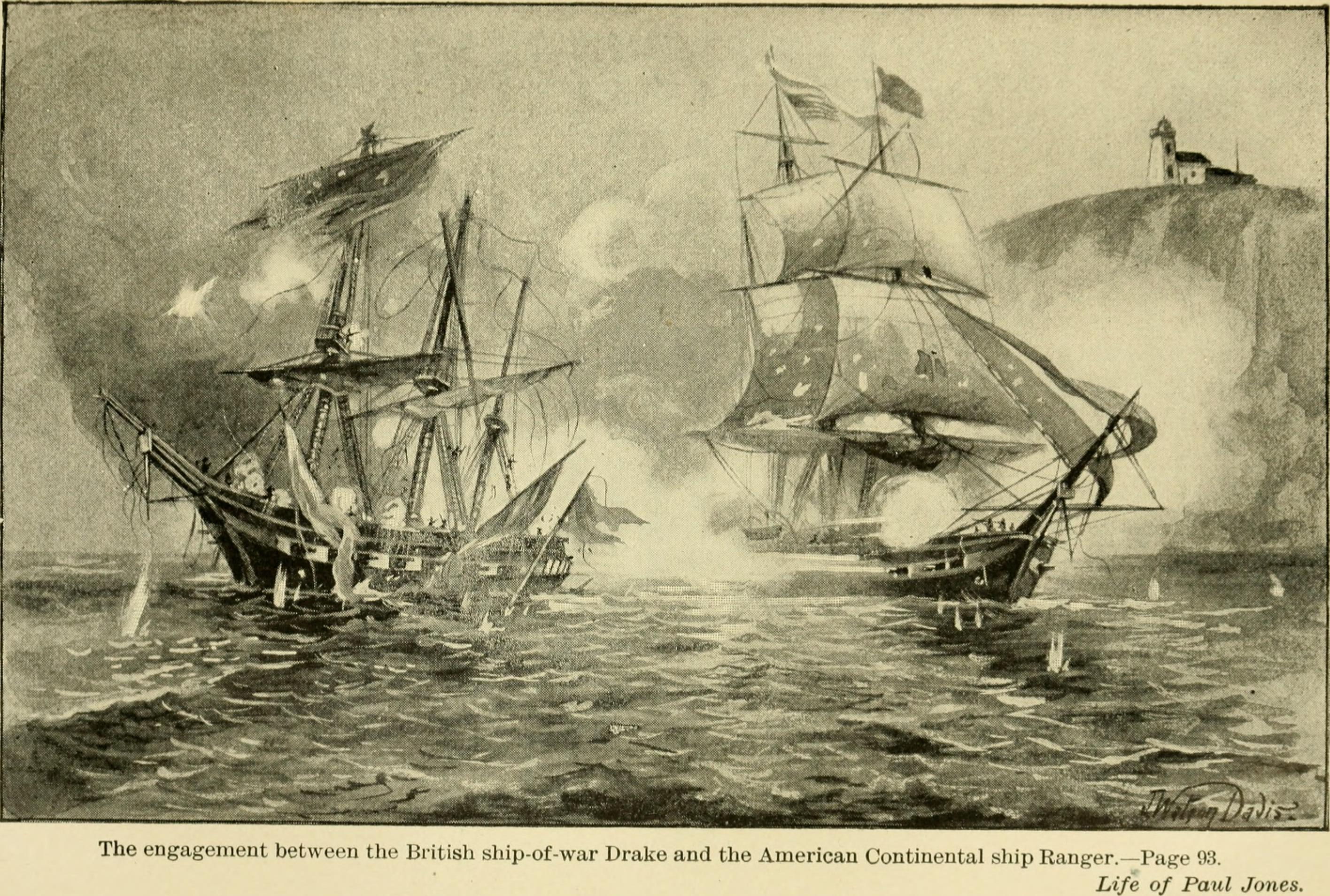 Title: The life of John Paul Jones : written from original letters and manuscripts in possession of his relatives, and from the collection prepared by John Henry Sherburne : together with Chevalier Jones' own account of the campaign of the Liman Year: 1900 (1900s) Authors: Otis, James, 1848-1912 Sherburne, John Henry, 1794-1850? Subjects: Jones, John Paul, 1747-1792 Russo-Turkish War, 1787-1792 Publisher: New York : A.L. Burt Co. Text Appearing Before Image: ^ to see an engagement. But,when they saw the Drakes boat at the Rangersstern, they wisely put back. Alarm smokes now appeared in great abundance,extending along on both sides of the channel. Thetide was unfavorable, so that the Drake worked outbut slowly. This obliged me to run down severaltimes, and to lay with courses up, and main-topsailto the mast. At lens^th the Drake weathered thepoint, and having led her out to about mid-channel,I suffered her to come within hail. Text Appearing After Image: AT WHITEHAVEN. 93 The Drake hoisted English colors, and at thesame instant the American stars were displayed onboard the Ranger. I expected that preface had beennow at the end, but the enemy soon after hailed, de-manding what ship it was ? I directed the masterto answer, The American Continental ship Eanger ;that we waited for them, and desired that theywould come on ; the sun was now little more thanan hour from setting, it was therefore time to begin.The Drake being astern of the Eanger, I orderedthe helm up, and gave her the first broadside. Theaction was warm, close, and obstinate. It lasted anhour and four minutes, when the enemy called forquarters; her fore and main-topsail yards beingboth cut away, and down on the cap ; the top-gallantyard and mizzengaff both hanging up and downalong the mast; the second ensign w^hich they hadhoisted shot J^V/^ay, and hanging on the quartergallery in the water; the jib shot away, and hang-ing in the water ; her sails and rigging entirely cutto